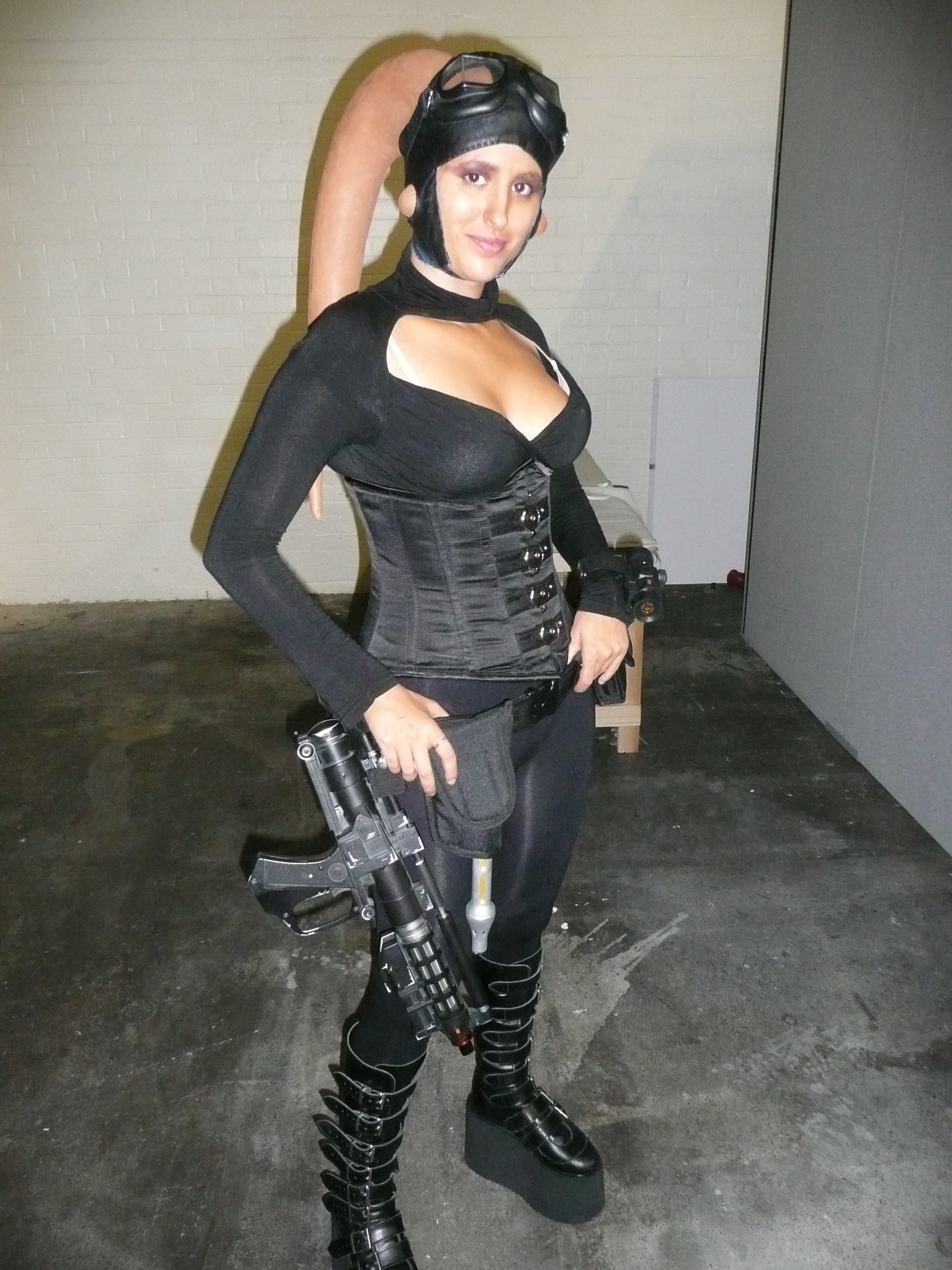 Cosplayer as a Twi'lek (humanoid alien species from the Star Wars Universe), at the Entertainment Media Show in London, September 2011